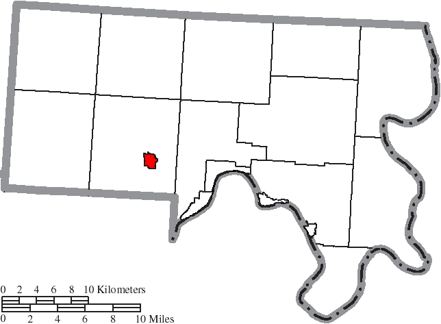 Map of the municipal and township boundaries of Meigs County, Ohio, United States, as of the 2000 census, with the location of the village of Rutland highlighted. Township borders are shown only in unincorporated areas in order to differentiate incorporated and unincorporated areas more clearly.